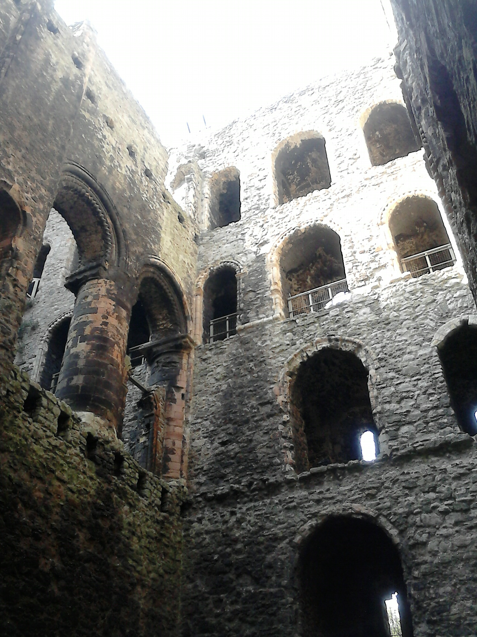 Interior shot of Rochester Castle, Kent